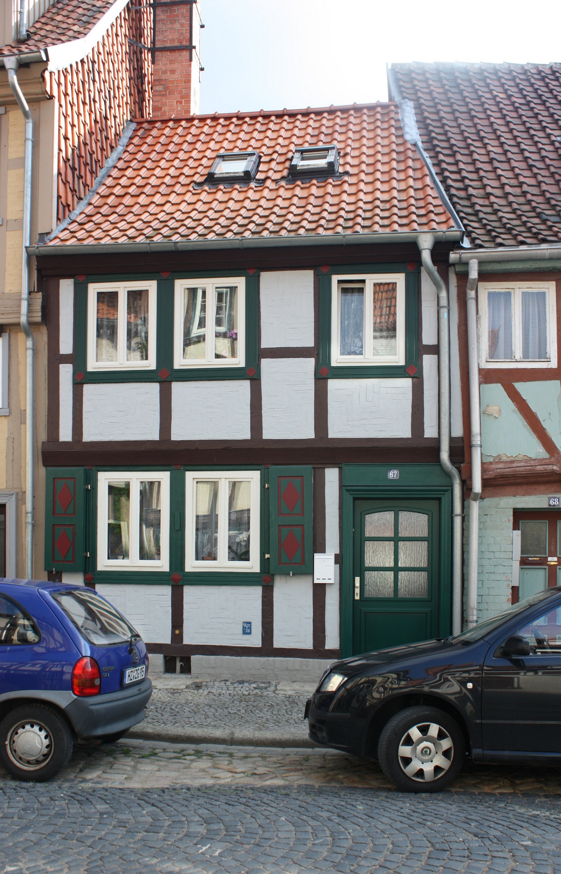 This is a photograph of an architectural monument.It is on the list of cultural monuments of Quedlinburg Augustinern 67 in Quedlinburg